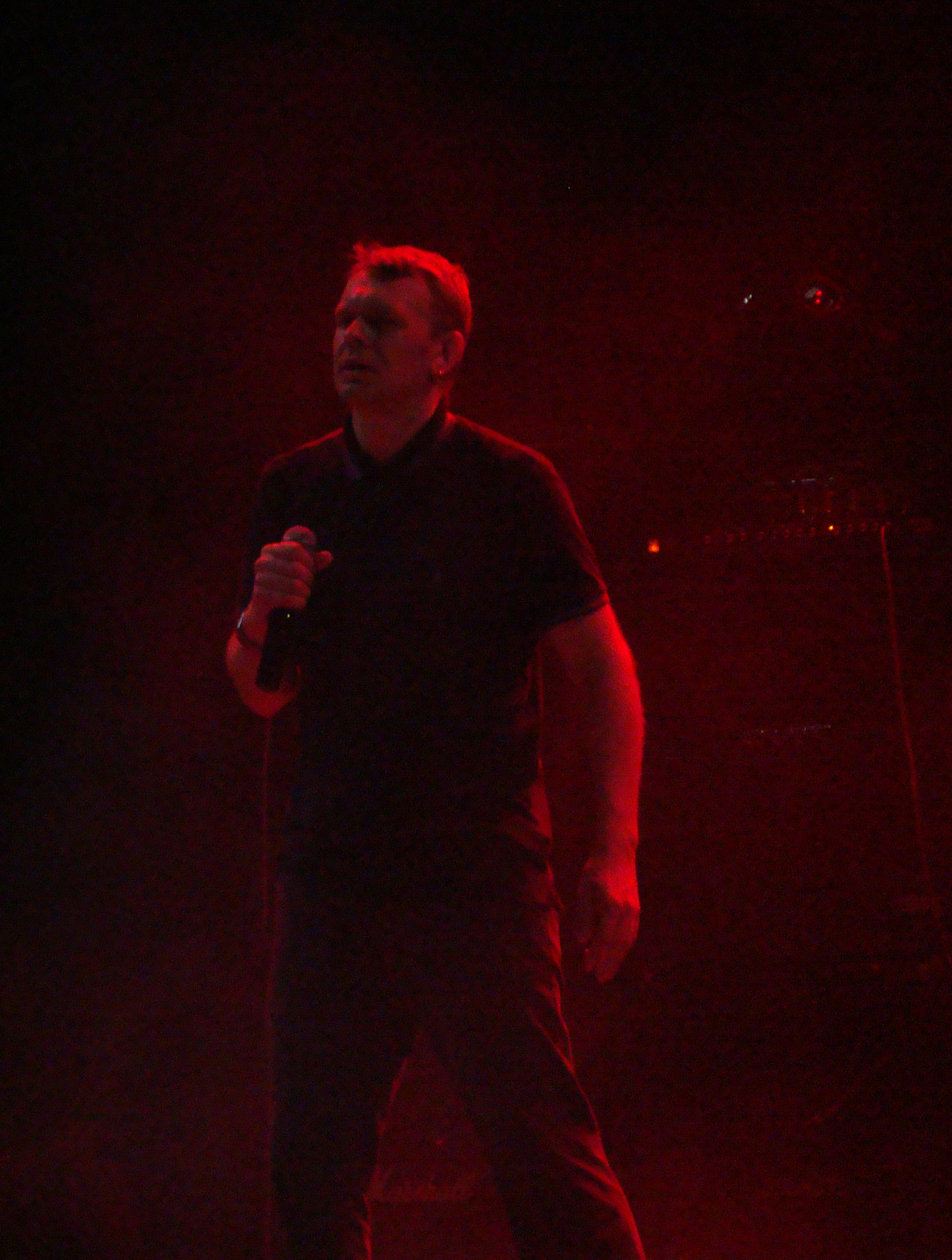 The frontman of "Tartak" Sashko Polozhynskyi during the performance at Zashkiv Festival 2011.